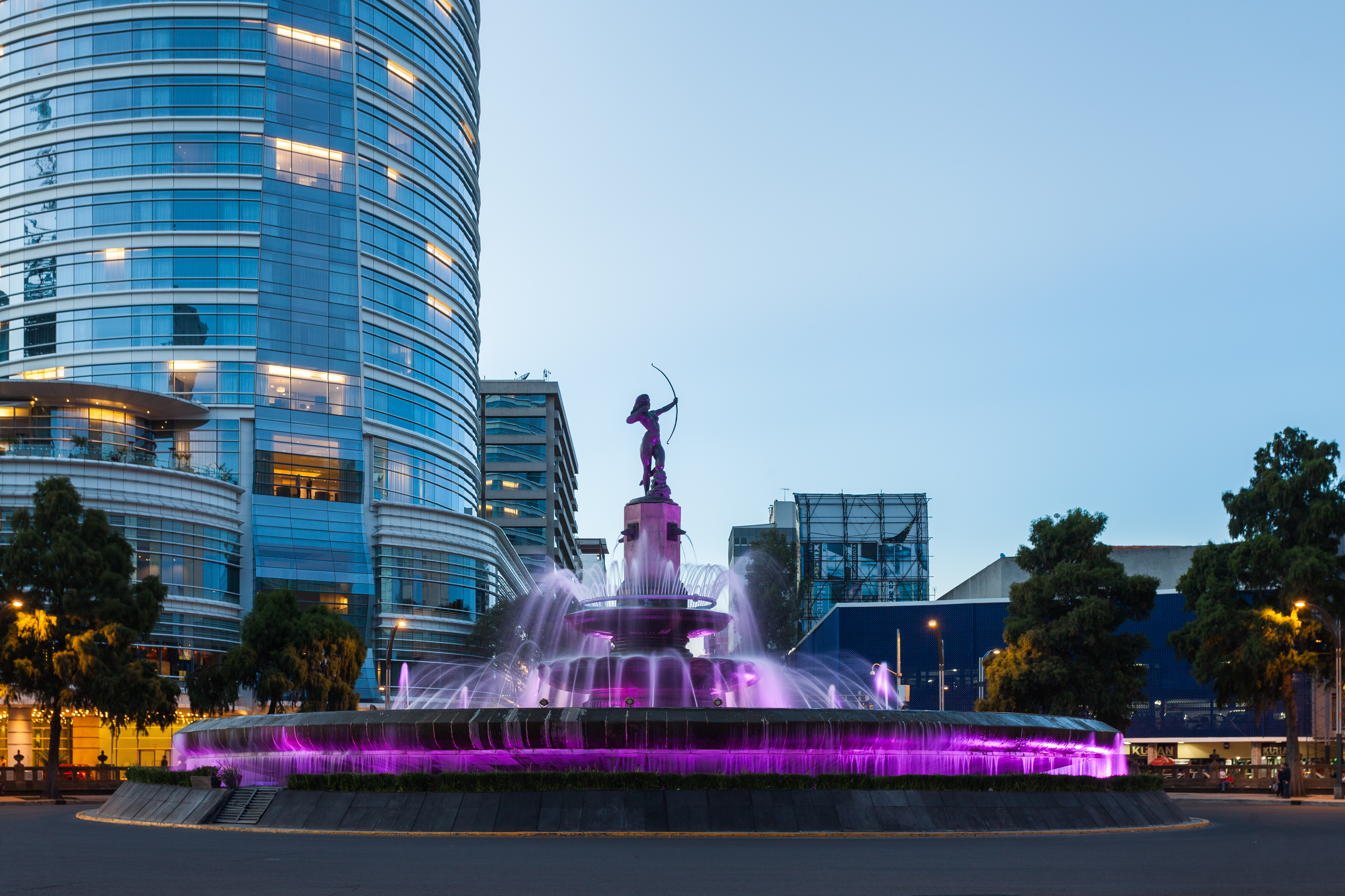 Fuente de la Diana Cazadora, Mexico City, Mexico